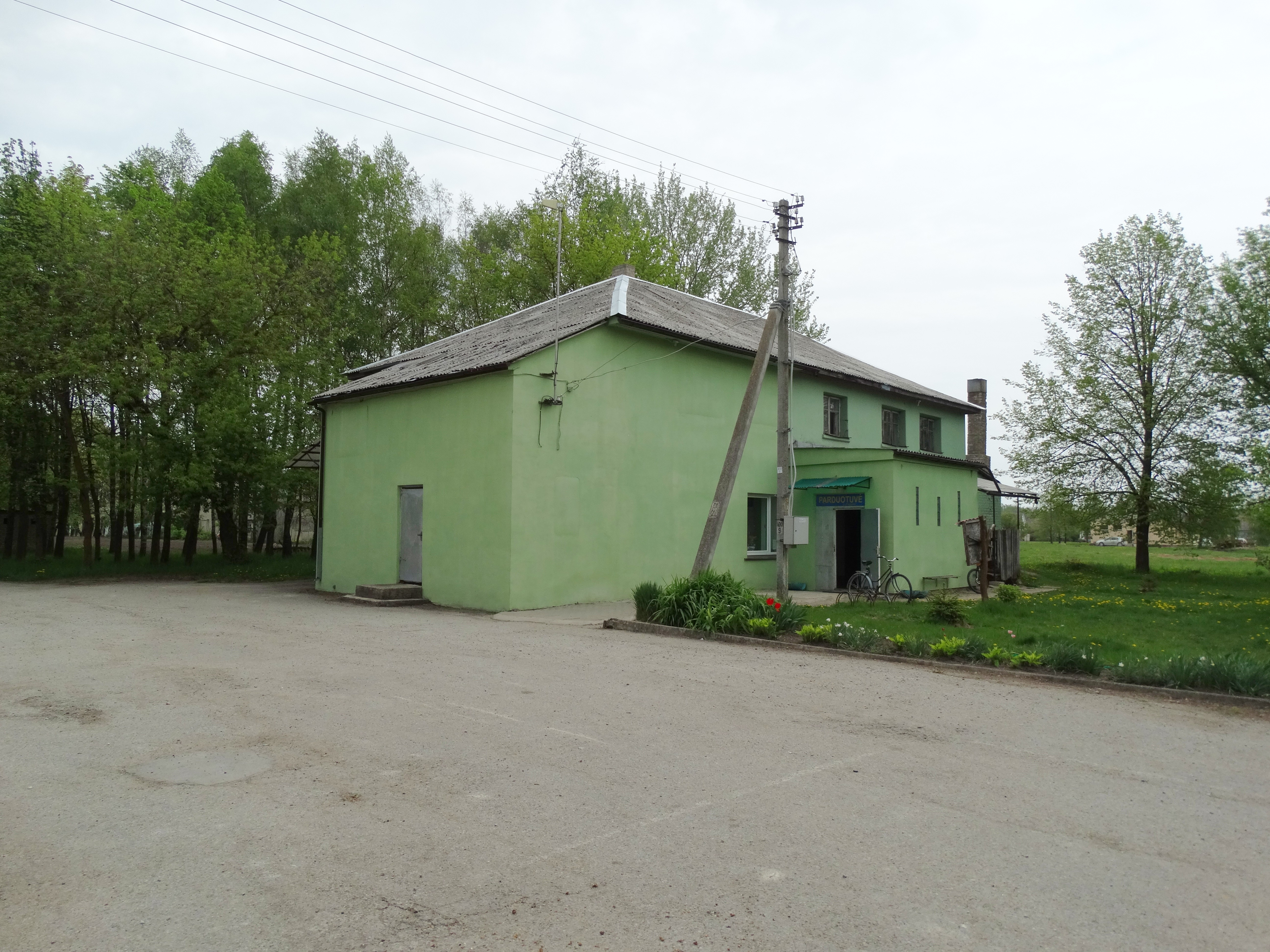 Gačioniai, Pakruojis district, Lithuania